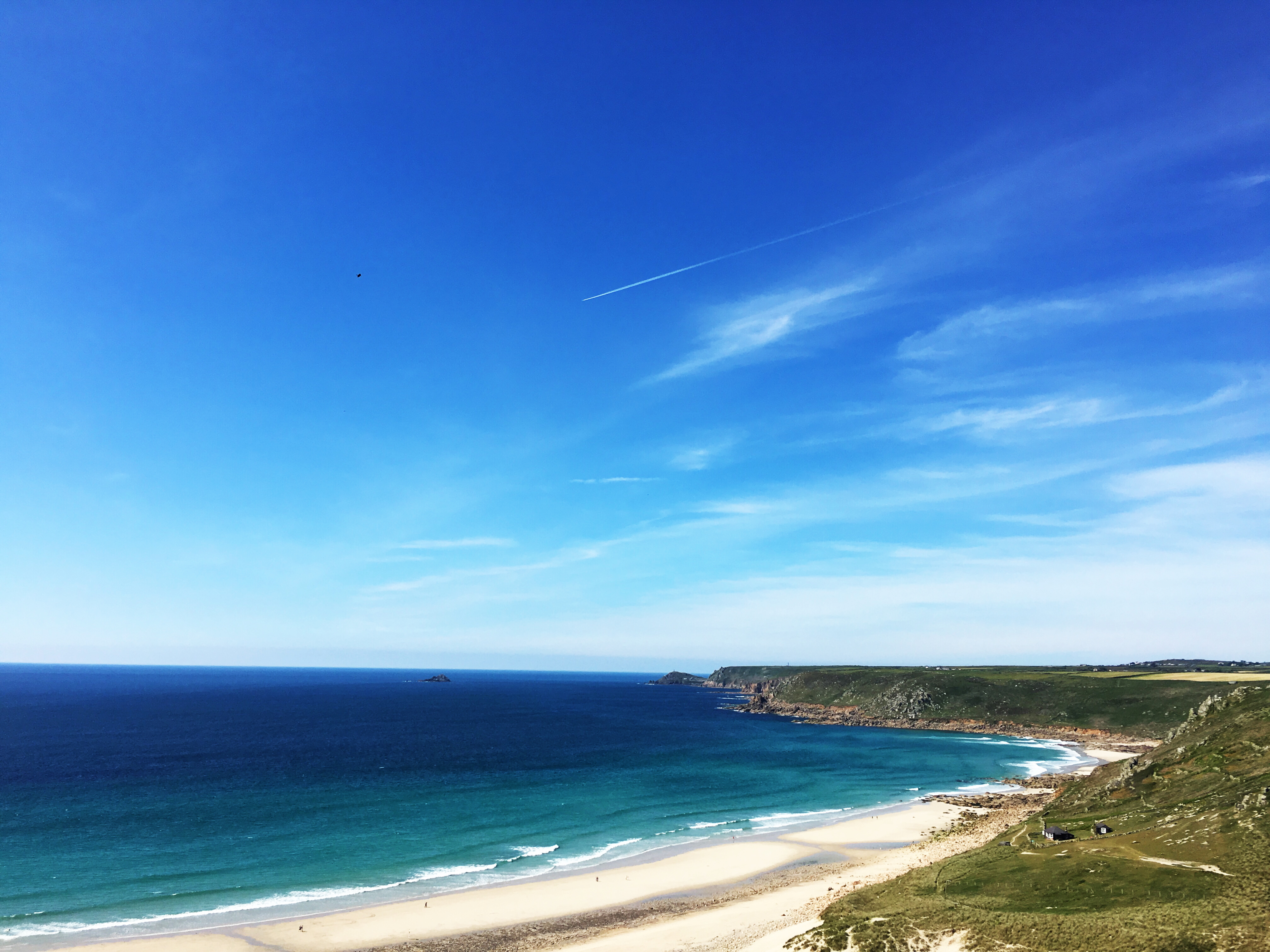 This is the beach at Sennen, also known as Whitesands Beach. The Atlantic swell provides the surf for which its noted. The view is looking down from Cove Road, showing the coastline with Cape Cornwall in the distance.